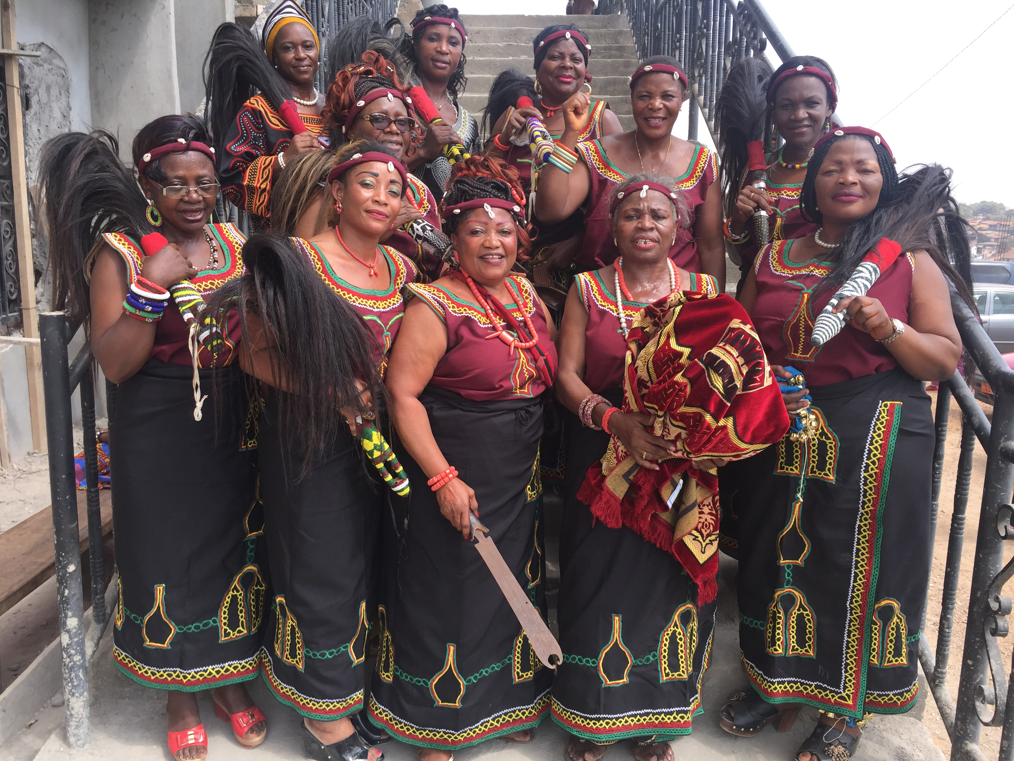 Work cultural celebration of the Northwest West Region of Cameroon 3 This is an image from Cameroon